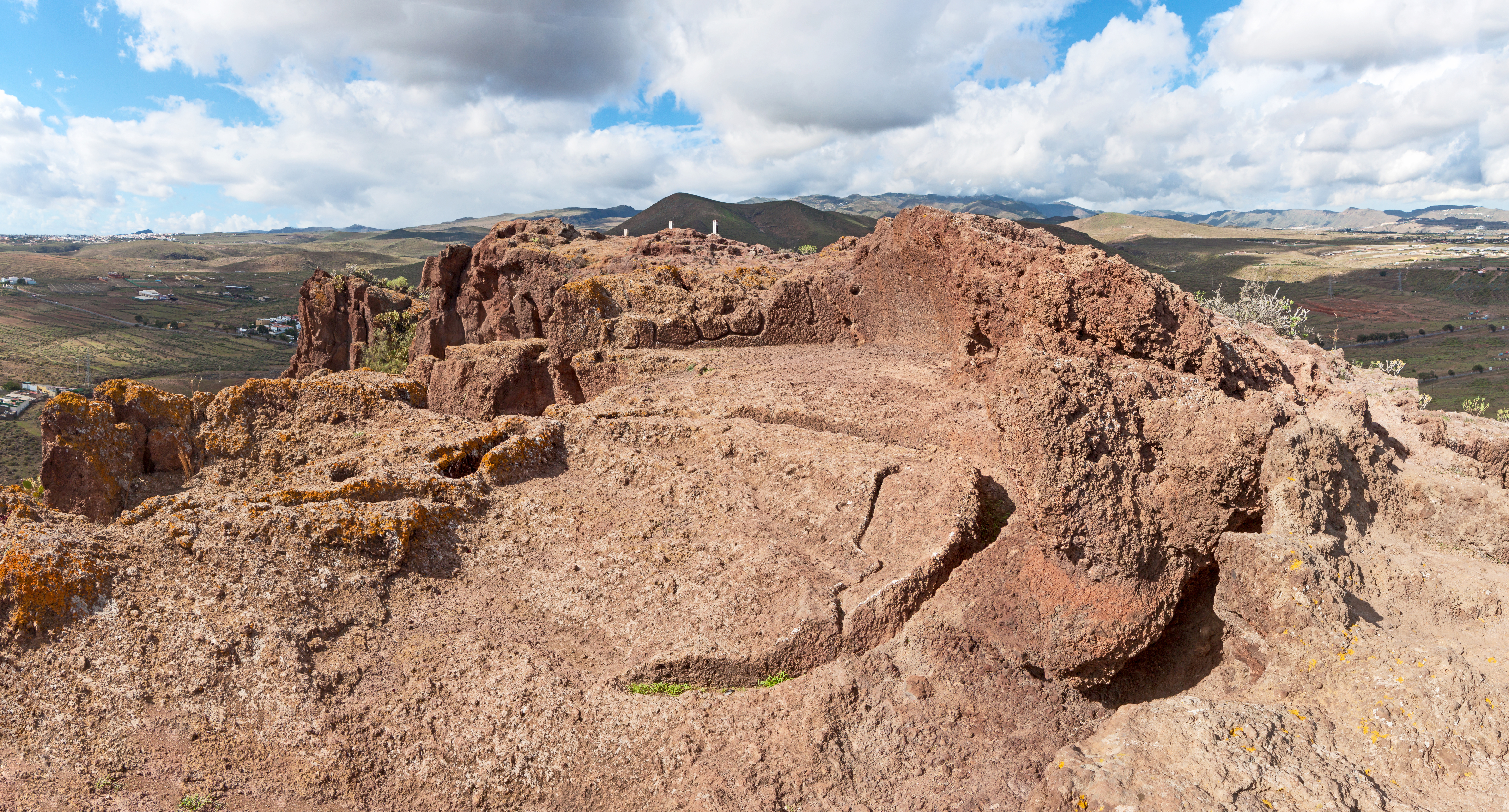 The almogarén, a ritual place of the Guanches, Archaeological area of Cuatro Puertas, Telde, Gran Canaria, Canary Islands, Spain.